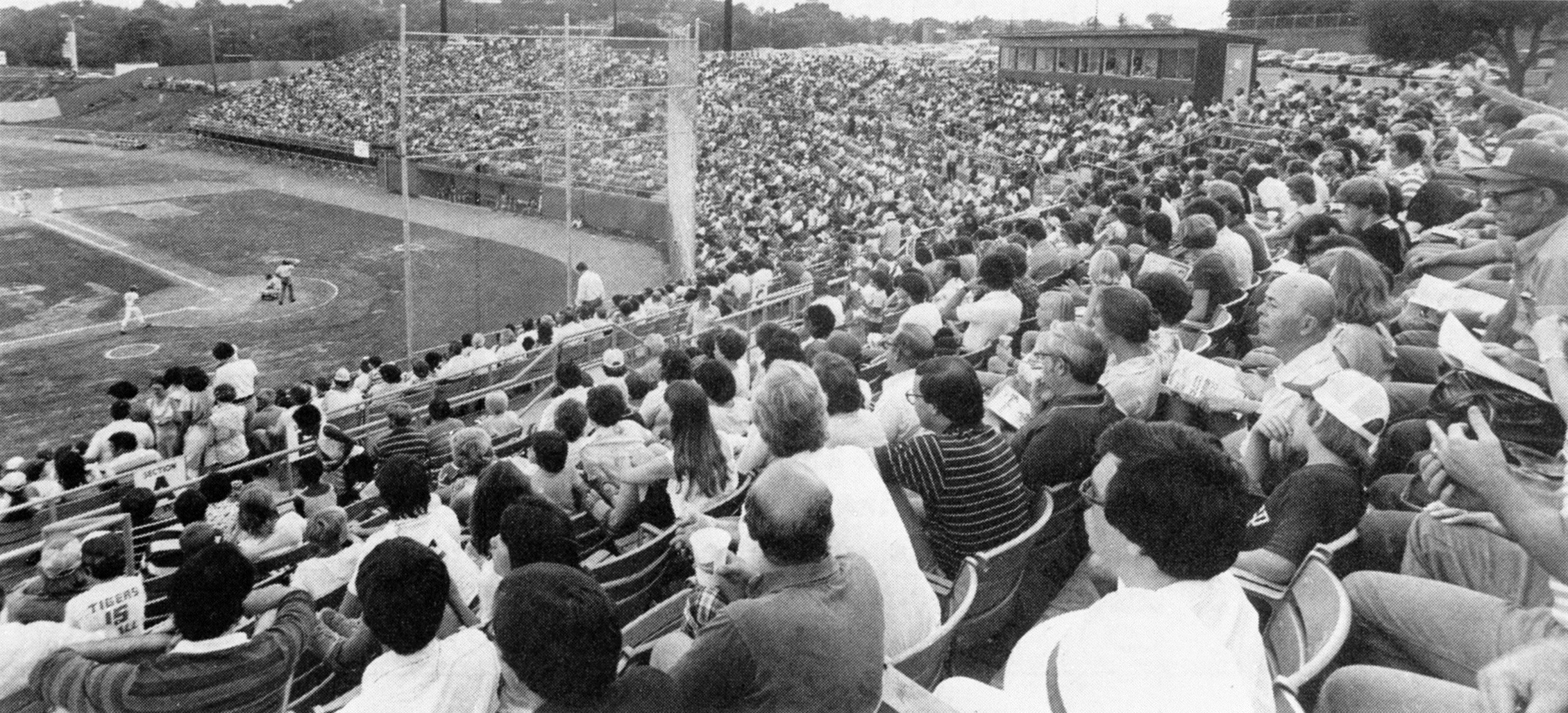 A 1978 baseball game at Herschel Greer Stadium in Nashville, home of the Nashville Sounds Minor League Baseball team of the Southern League